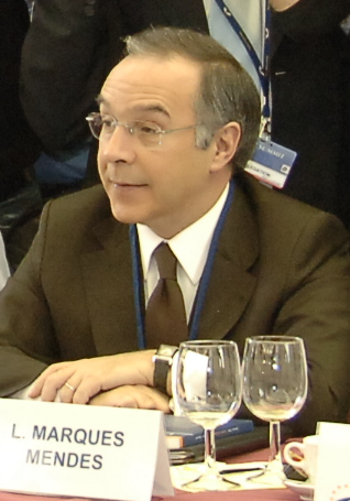 EPP Summit 21 June 2007 - European People's Party